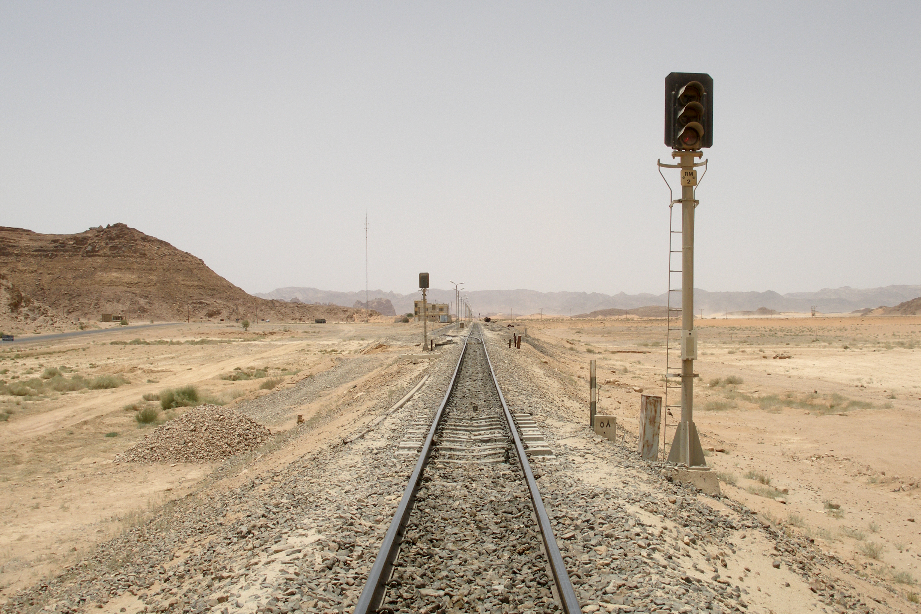 The Hejaz (or Hedjaz) railway was a narrow-gauge railway that ran from Damascus to Medina, through the Hejaz region of Saudi Arabia. In Jordan it is now primarily used for phosphate transit.